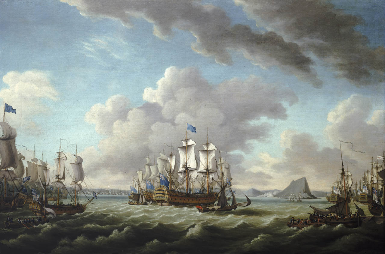 In the centre of this depiction, a group of men-of-war, in starboard-quarter view, are running towards the Straits of Gibraltar. They are all of Lord Howe's division and wear blue ensigns. The central ship is the 'Victory', 100 guns, flying Lord Howe's blue flag at the main. She has a cutter under her stern and another to starboard. In the right foreground is a cutter, starboard-bow view, with her sails down and a boat beside her. Beyond her, in the right background, is the van division, in starboard-quarter view, all with white ensigns. The 'Britannia', 100 guns, can be seen wearing the flag of Vice-Admiral Samuel Barrington. In the left foreground, in starboard-quarter view, is a rowing boat with a sail at her bows. Beyond her is a frigate, in starboard-quarter view, and the rear division with the blue flag of Vice-Admiral Milbank in the 'Ocean', 98 guns. In the background, between the rear and centre divisions, is the Franco-Spanish fleet at anchor in Algeciras Bay. In the background, between the centre and van divisions, can be seen the Rock of Gibraltar with cannon smoke rising from the Spanish side of it.